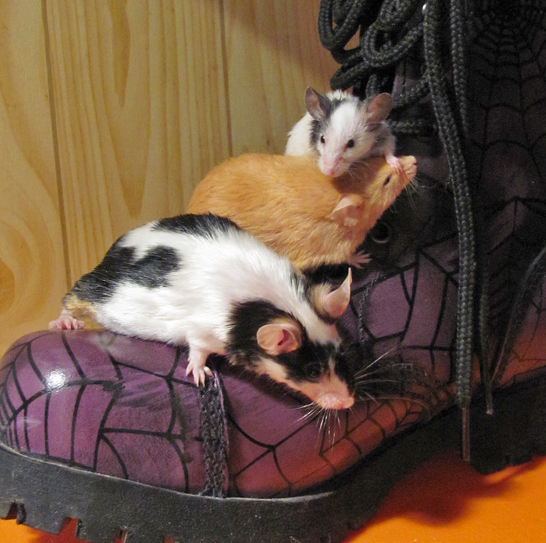 Three different sized adult pet mice on a shoe.